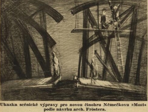 Draft scene of the theatre play Most (author Zdeněk Němeček) by František Tröster, 1938, Prague